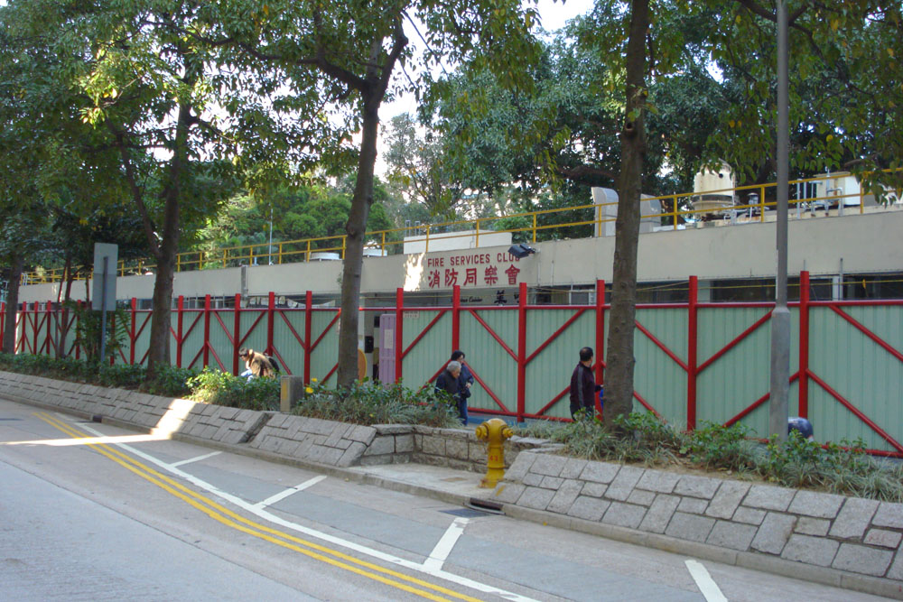 Hong Kong Fire Services Club